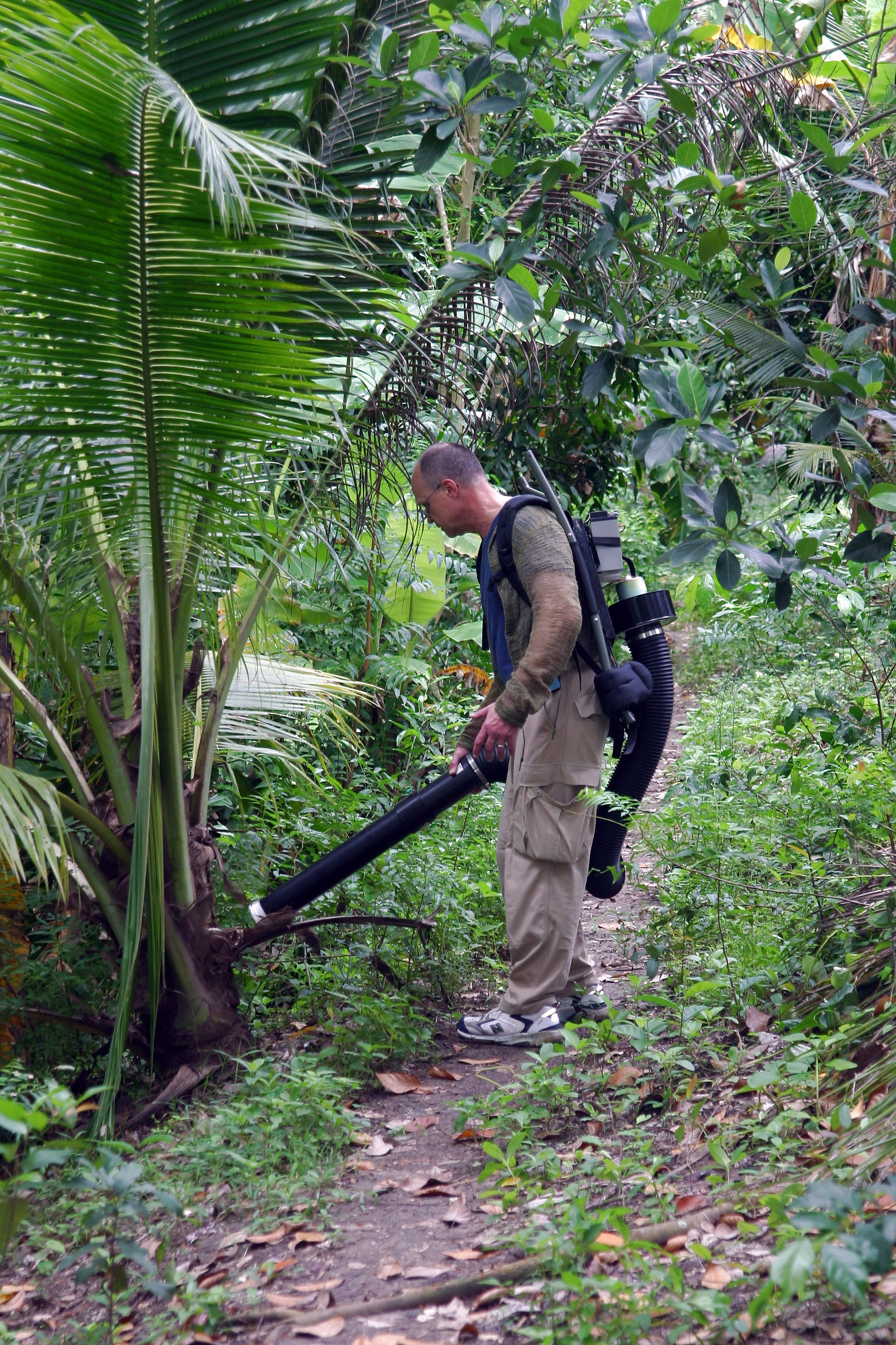 Col. James Swaby uses a powered aspirator to collect mosquitoes in a northern Thailand jungle in August 2007. The mosquitoes are processed to remove their genetic material for testing to determine their species and if they are infected with Dengue Fever. Colonel Swaby is the 59th Clinical Research Division chief at Wilford Hall Medical Center, Lackland Air Force Base, Texas.